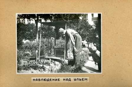 Timiryazev museum on Moscow streets